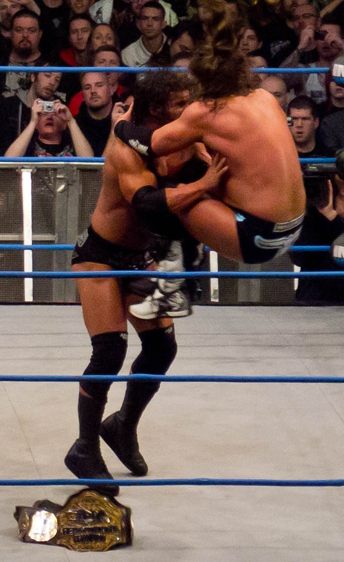 James Storm attempts the Closing Time double knee facebreaker on Robert Roode during the Impact! taping on January 28, 2012 in Wembley, England.